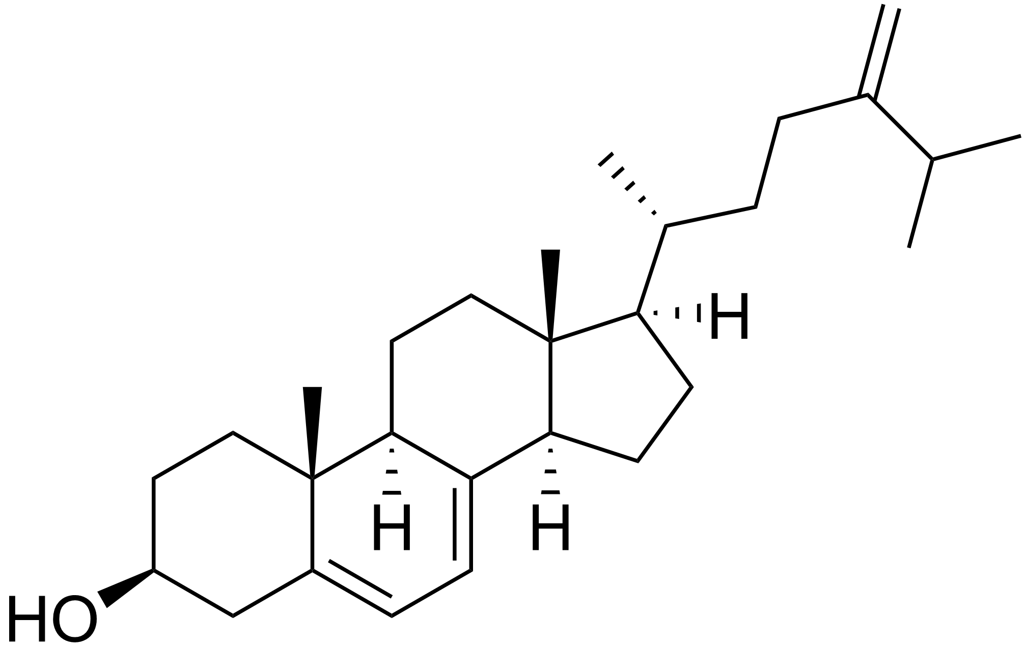 Chemical structure of 5-dehydroepisterol